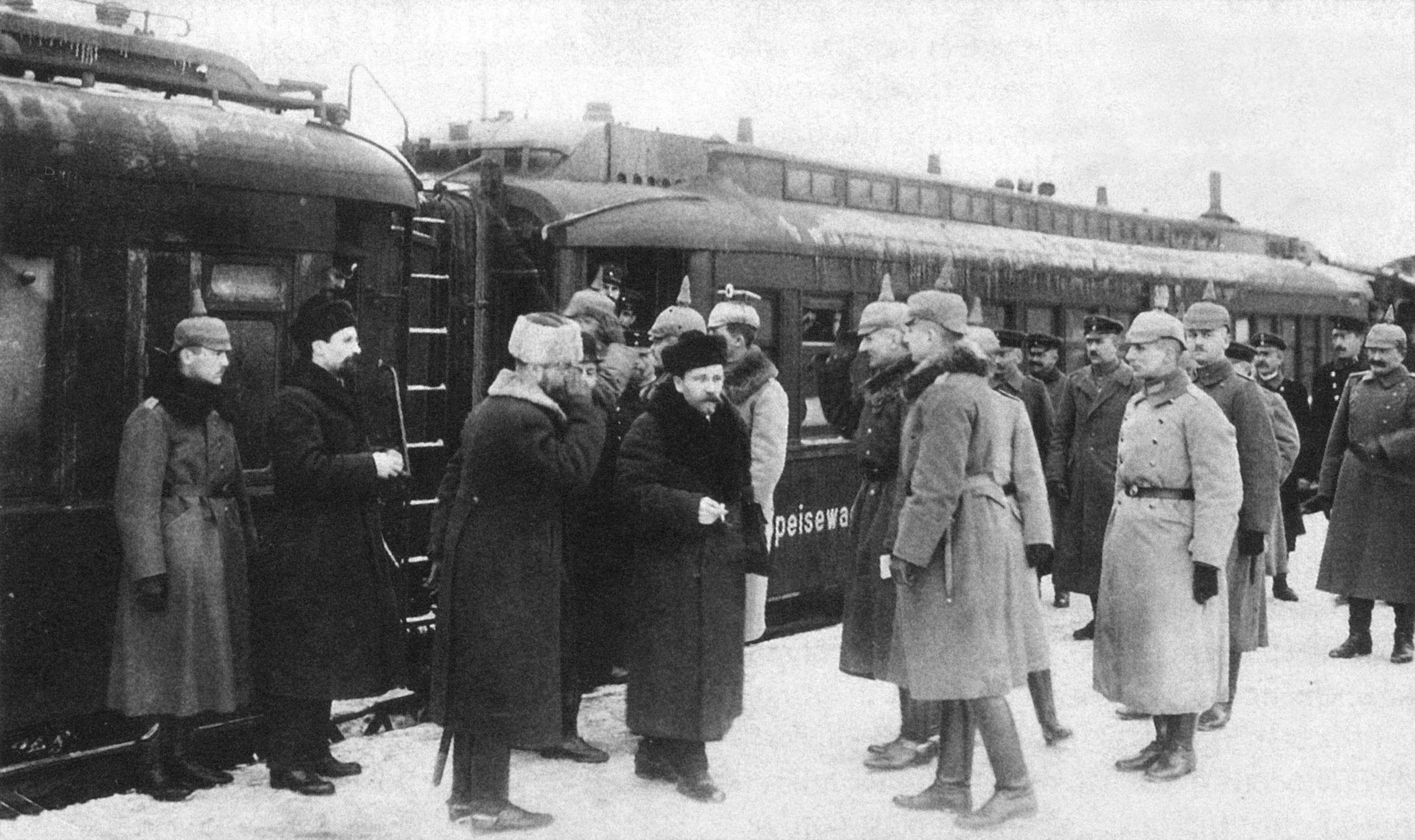 Treaty of Brest-Litovsk, January 1918. Caption: Officers from the staff of Field Marshall von Hindenburg meet the delegation of Soviet Russia.